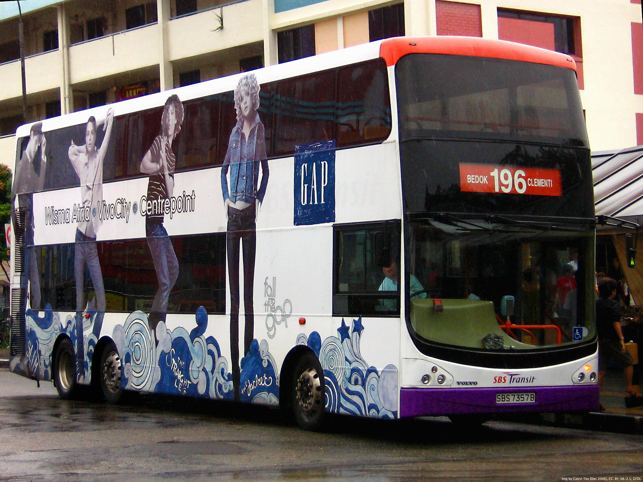 A Volvo B9TL(SBS7357B) operating on Svc. 196 at Bedok Interchange. (GAP Advertisement/GAP 광고)